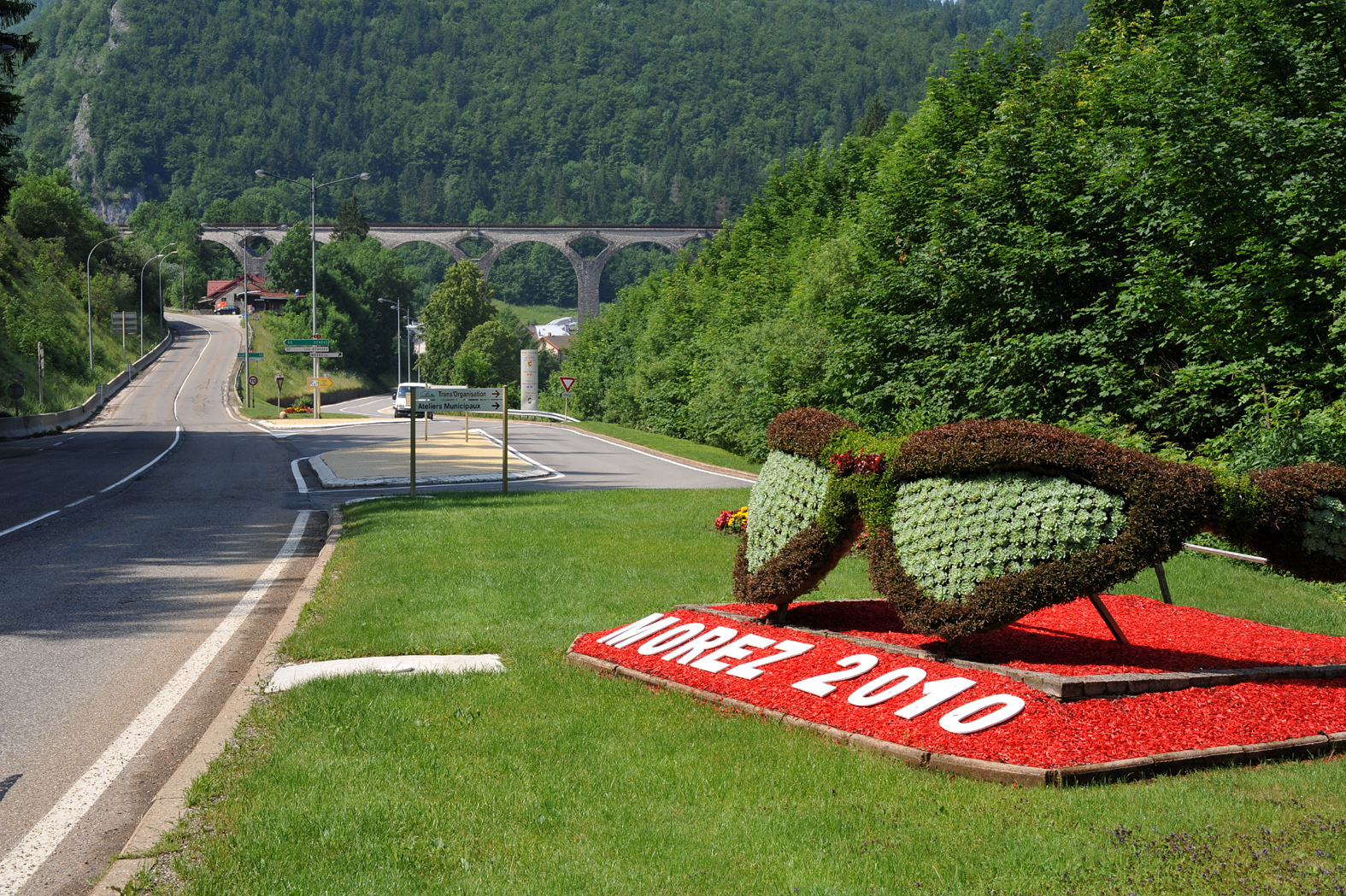 Road entering the town of Morez; Doubs, France. Glasses as a symbol for the main product of the town.